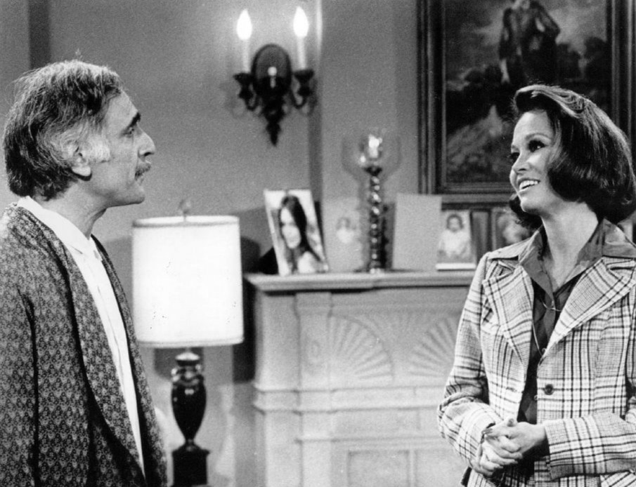 Photo of Harold Gould as Rhoda's father, Martin Morgenstern, and Mary Tyler Moore as Mary Richards from The Mary Tyler Moore Show. When Rhoda and Mary go to New York for the marriage of Rhoda's younger sister, Debbie, Martin asks Mary not to go to a hotel, but to stay with the family.